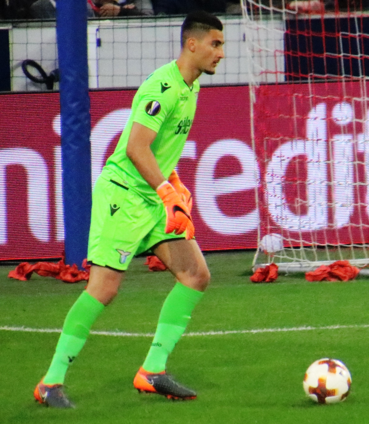 UEFA euro League Quarterfinal 2nd leg